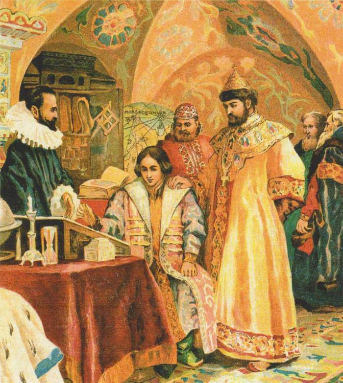 Picture "Boris Godunov overseeing the studies of his son"